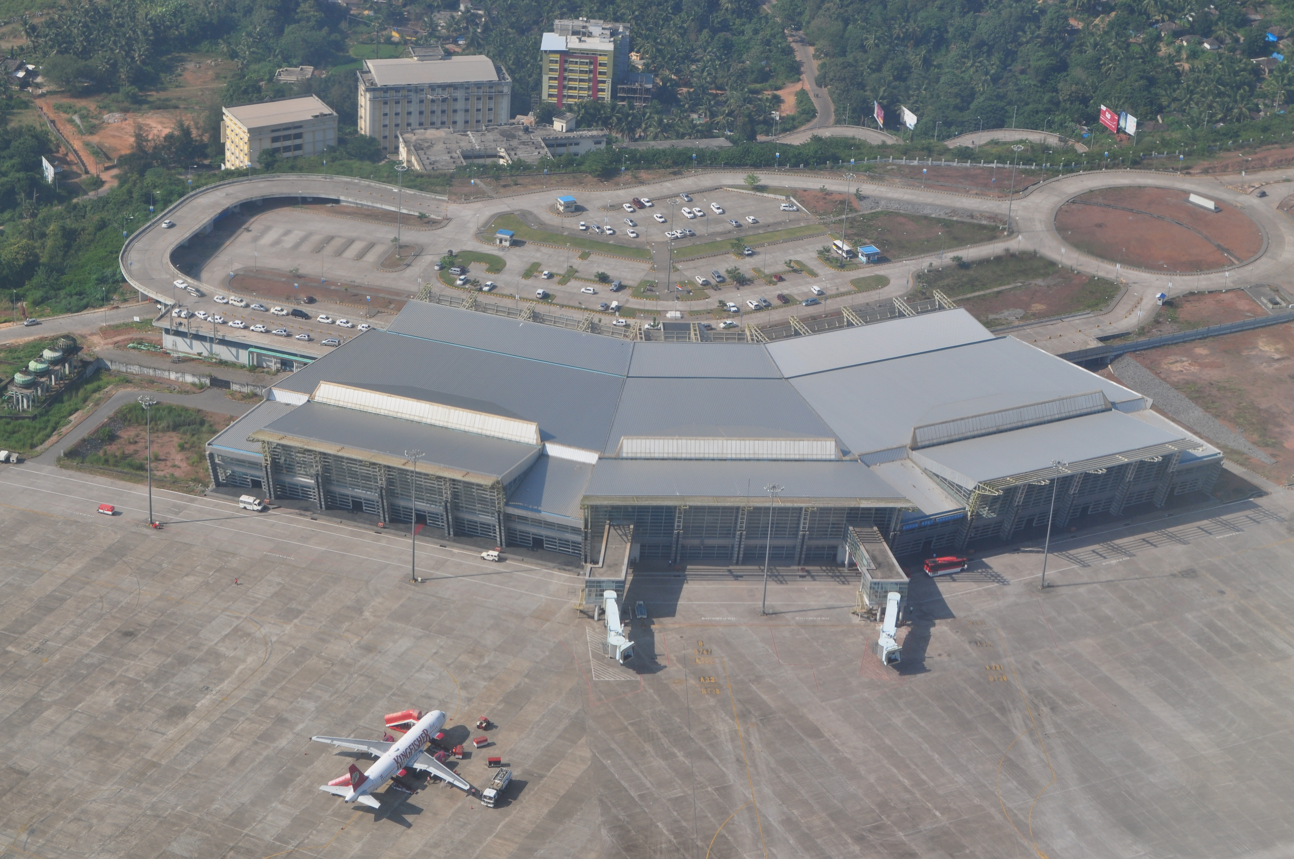 Aerial view of the Mangalore Airport terminal.